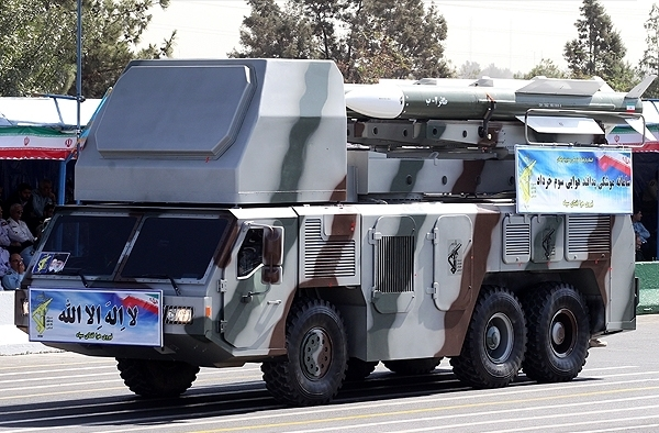 IRGC-ASF 3rd Khordad transporter erector launcher and radar (TELAR), w/ Taer 2B missiles @ Sacred Defense Parade - 2014 Tehran.